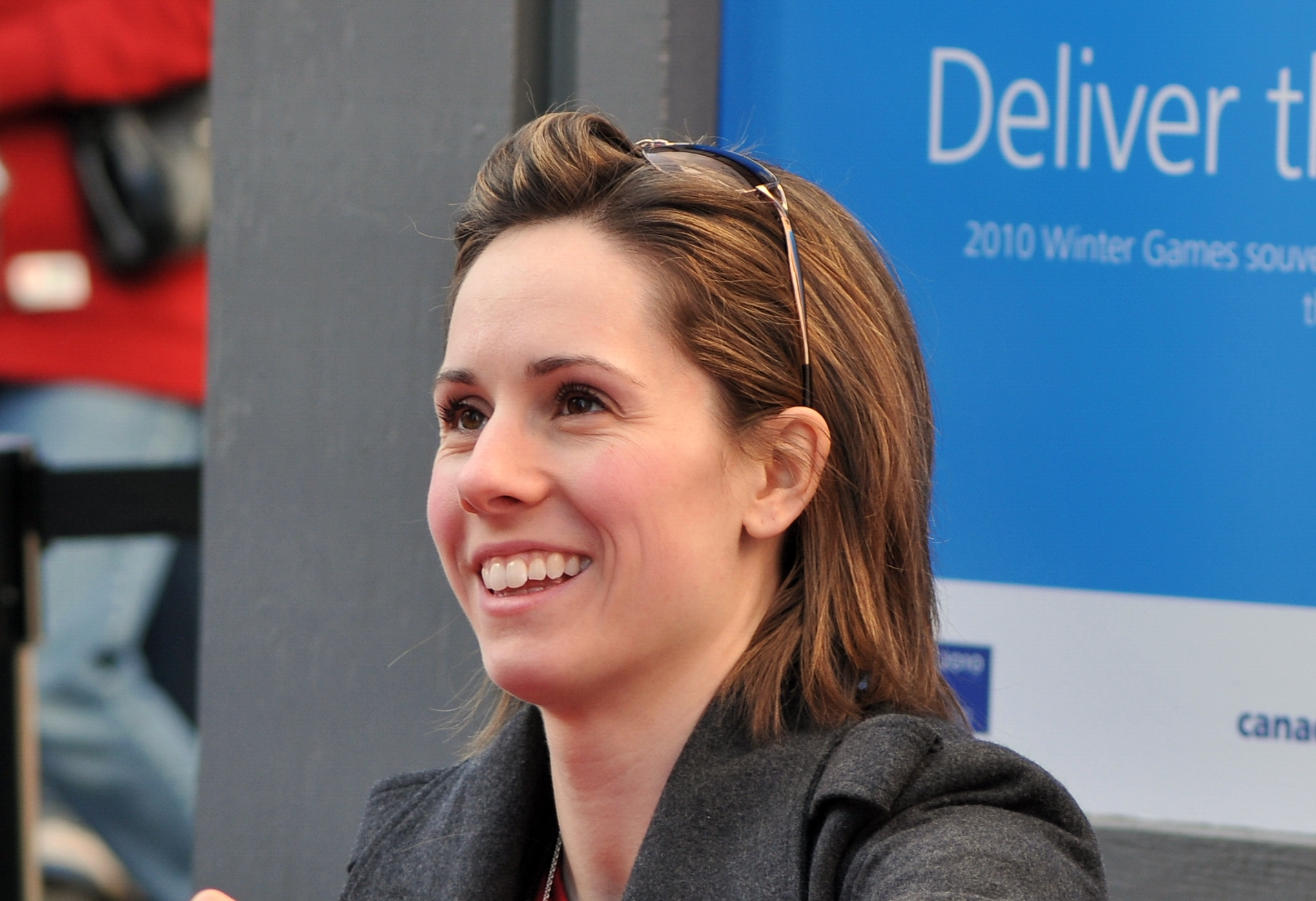 Best Viewed Large or Original. Vancouver 2010 Olympics. Canadian Jenn Heil, Silver Medalist - Moguls